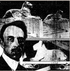 Jorgen Dreyer with the Lionesses in work stages for KC Life Insurance